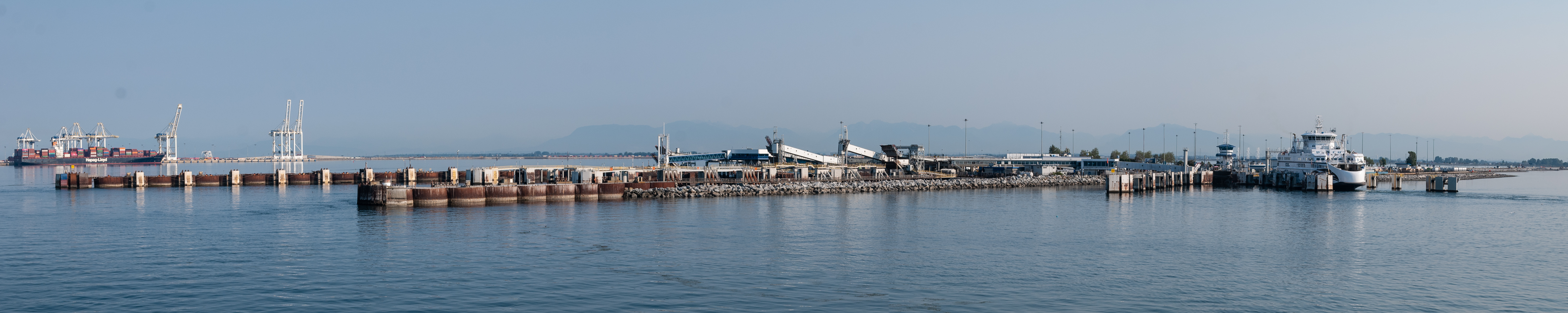 BC Ferries Tsawwassen Terminal, with Roberts Bank Superport at the back left, on August 28, 2018.